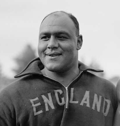 Winners of the men's shotput event at the 1950 British Empire Games, one from England, the other from Fiji. Photograph taken in February 1950 by an Evening Post photographer.